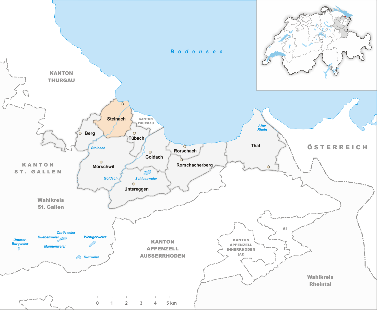 Municipality Steinach